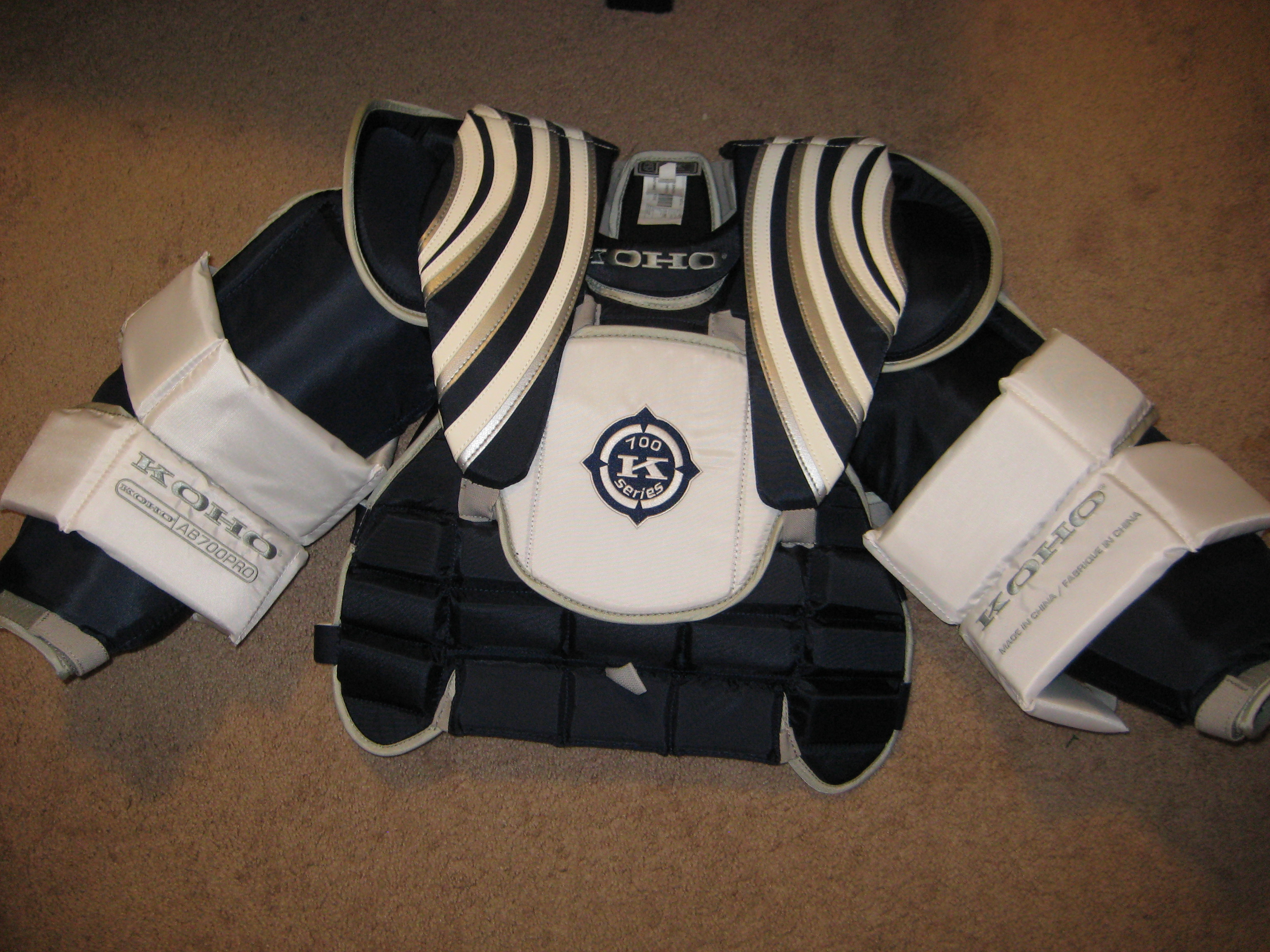 Koko 700 CA Senior Pro chest and arm protector